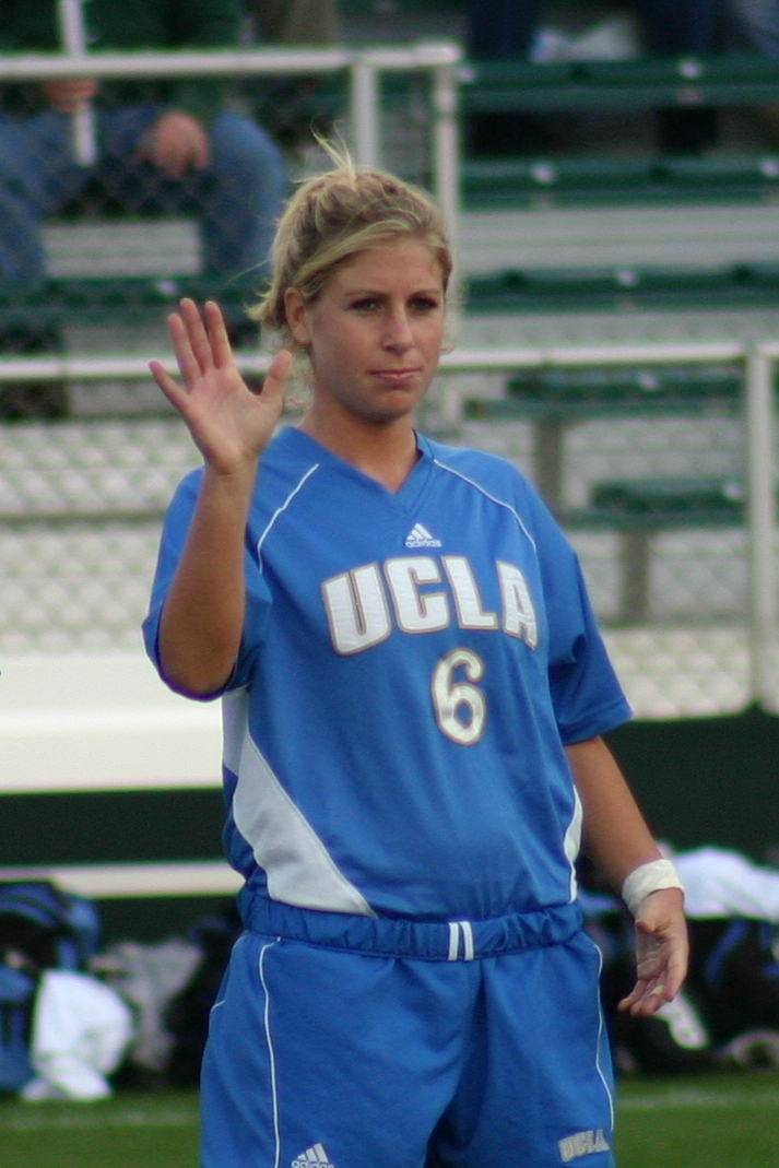 UNC Tar Heels (women) beat UCLA Bruins 2-0 on goals from Casey Nogueira and Heather O'Reilly in the semifinal of the 2006 Women's College Cup on Friday, December 1st at SAS Soccer Park in Cary, NC